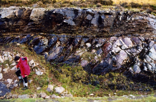 Lewisian-Torridonian Unconformity. Horizontal strata of Torridonian sandstone lie unconformably on deformed Lewisian gneiss, seen on the roadside close to Loch Assynt.